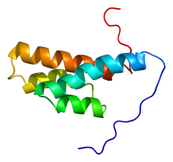 Structure of the sterile alpha motif domain in the DLC1 protein. Based on PyMOL rendering of PDB 2dky.